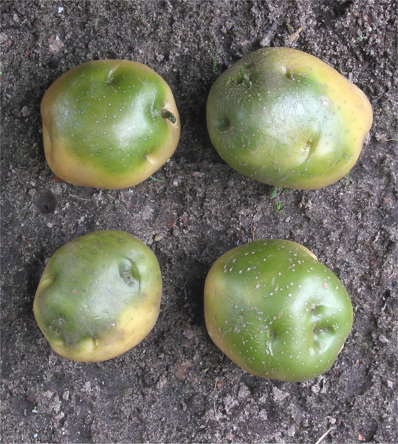 (nl: Aardappel groene knollen) Solanum tuberosum tubers exposed to light